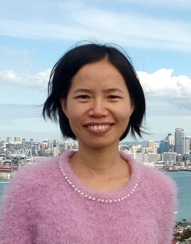 Liu Yan's photo